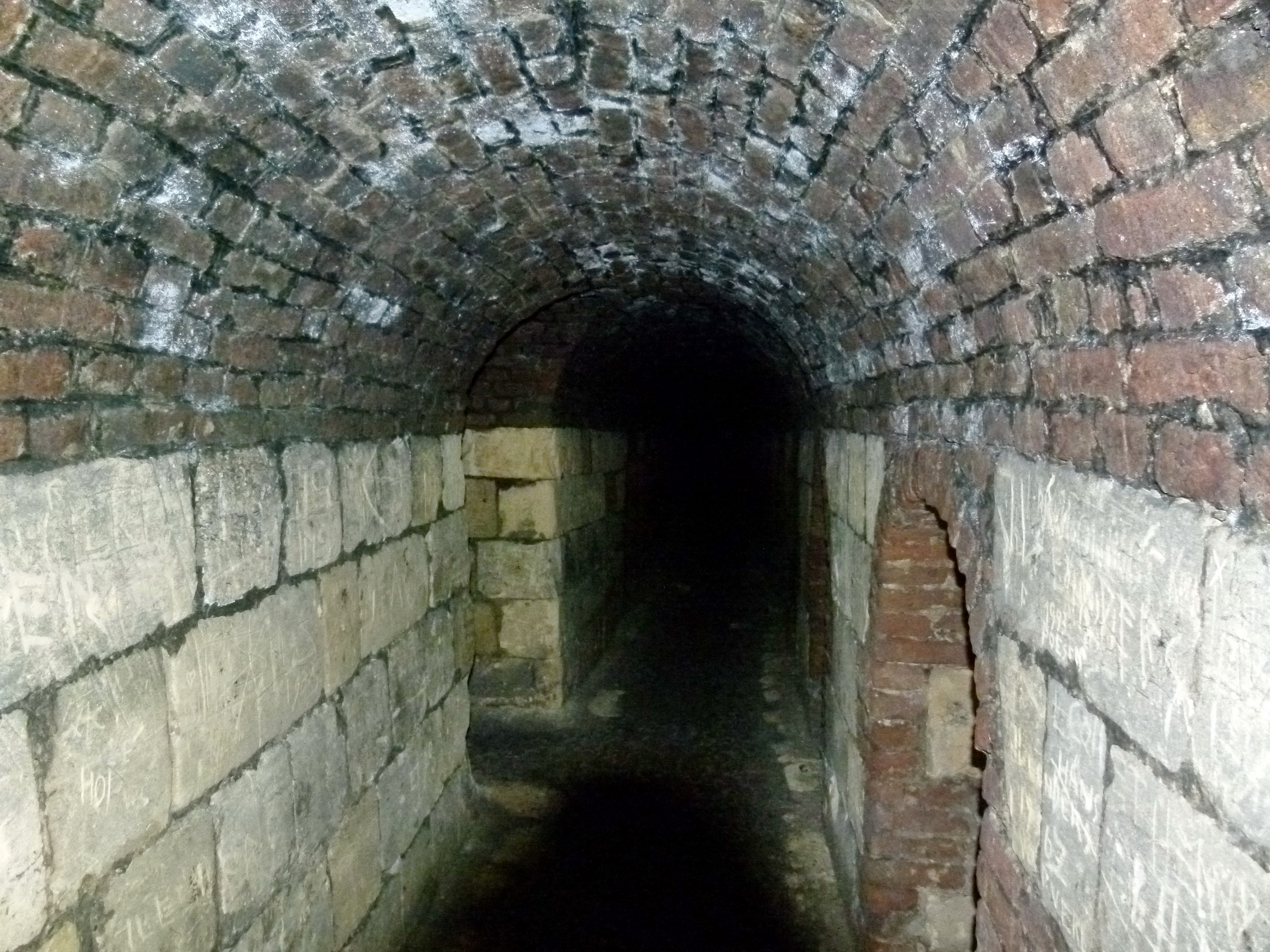 Maastricht, the Netherlands. View of the Maastricht underground fortifications or casemates (Kazematten), the elaborate system of casemates, caponiers and the connecting network of subterrainean corridors and mine galeries. They mainly exist on the heigher ground in the west of the city's fortifications (Hoge Fronten) where the use of water as a defense was impeded. The Kazematten are largely intact, even though parts of the above-ground fortifications have been demolished. Access is possible with a guide from the Waldeck Bastion and (for extended tours) from the Linie van Du Moulin.